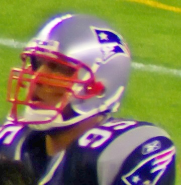 New England Patriots players on sideline during preseason game vs. Tennessee Titans. See w:2007 New England Patriots season#Opening_training_camp_roster